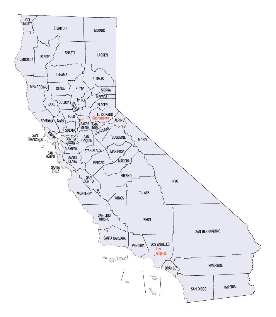 Outline map of California counties, counties named, from Census quickfacts